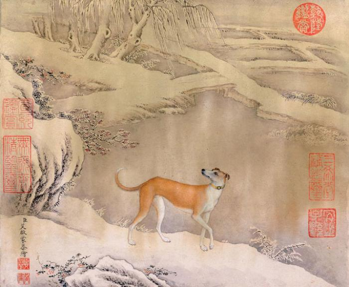 From Ten Fine Dogs, c. 1745—58, by Ignaz Sichelbarth (Ai Qi Meng 艾启蒙). One of ten album leaves, colour on paper. The Palace Museum, Beijing.